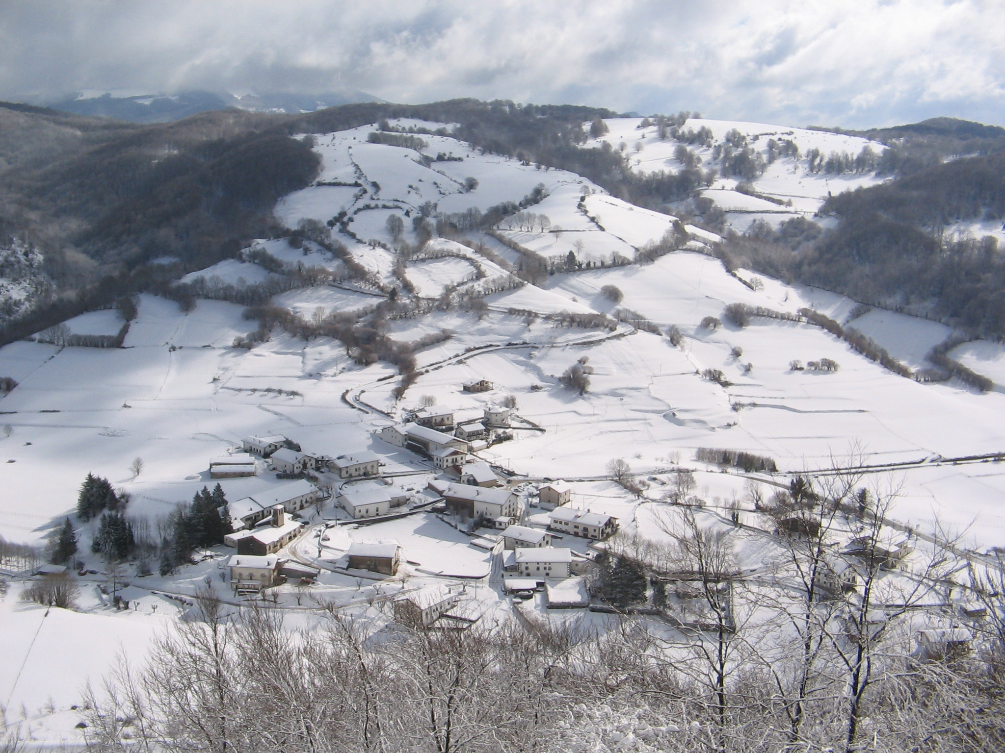 View of village Gorriti (NE of Navarre) from Mt. Santa Barbara by the A-15 motorway in the Basque Country